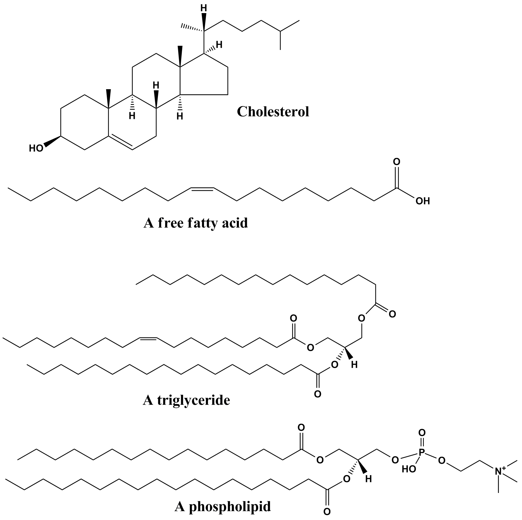 4 Common lipids